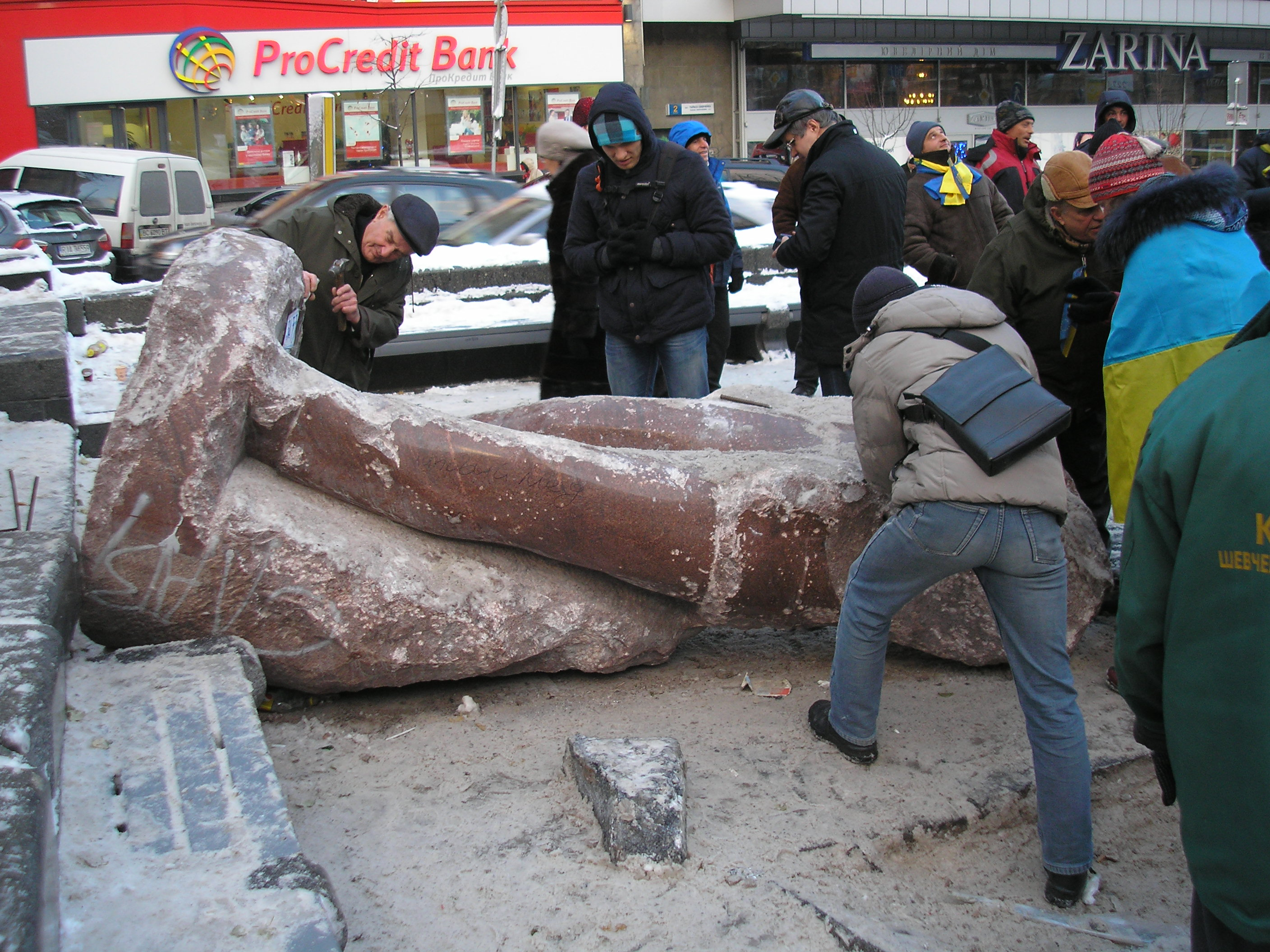 Euromaidan in early evening